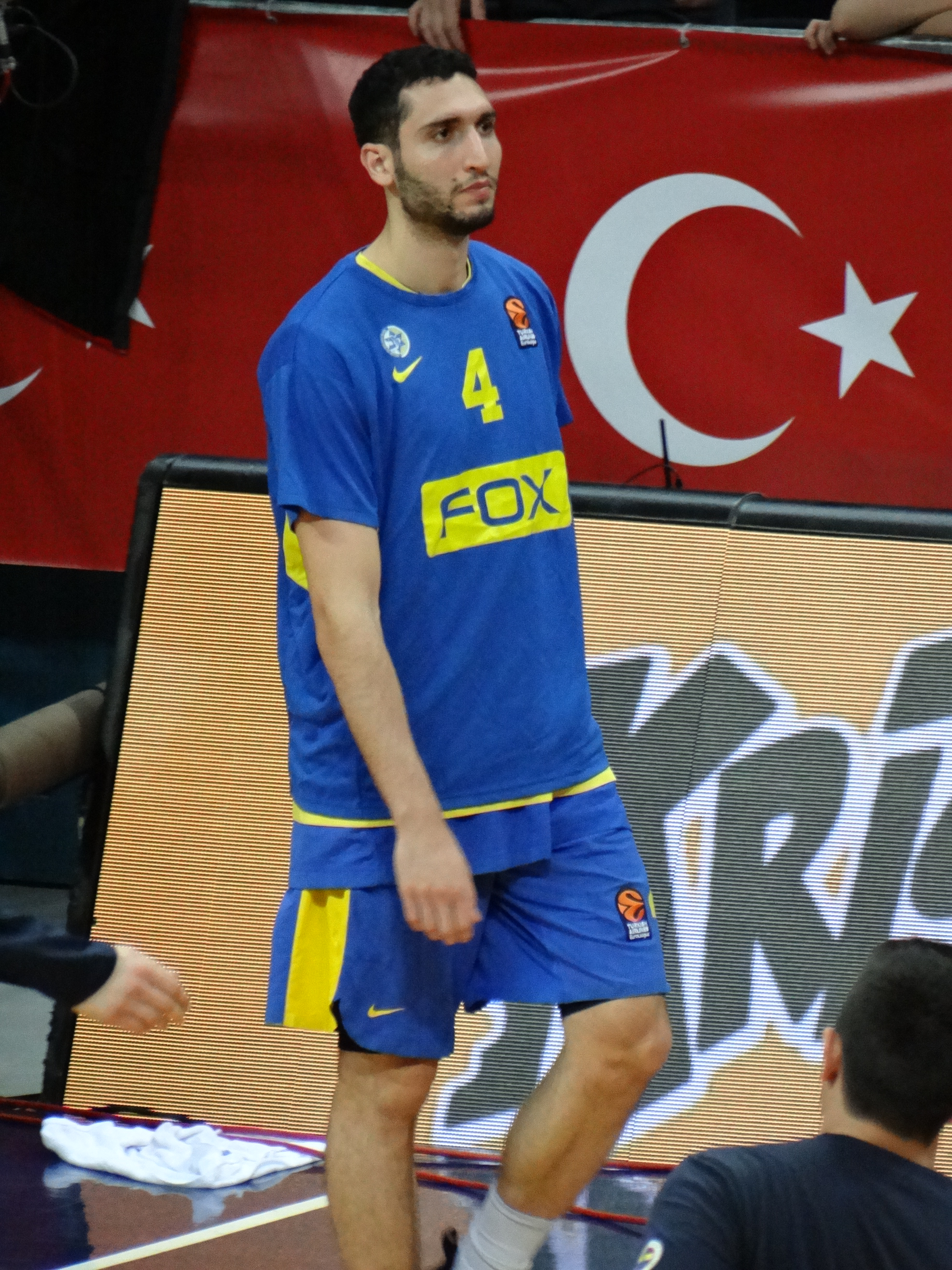 Karam Mashour 4 Maccabi Tel Aviv B.C. EuroLeague 20180320